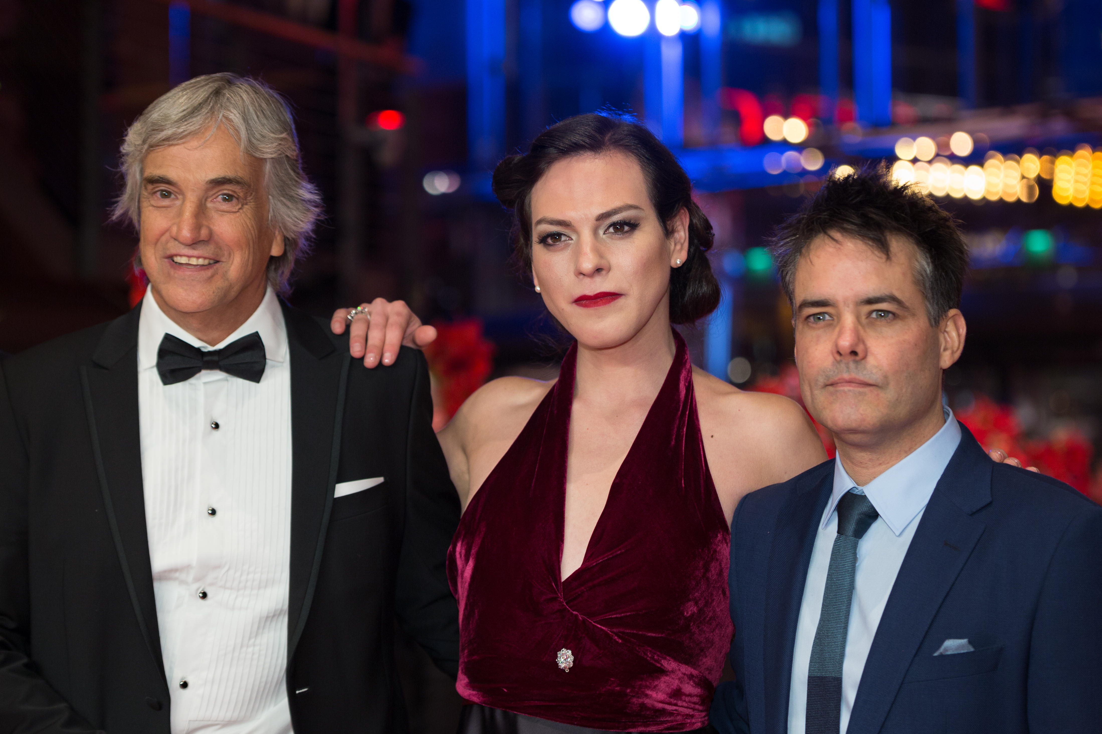 Francisco Reyes, Daniela Vega and Sebastián Lelio, the film team of the movie A Fantastic Woman (Una Mujer Fantástica) on the red carpet at the Berlinale 2017